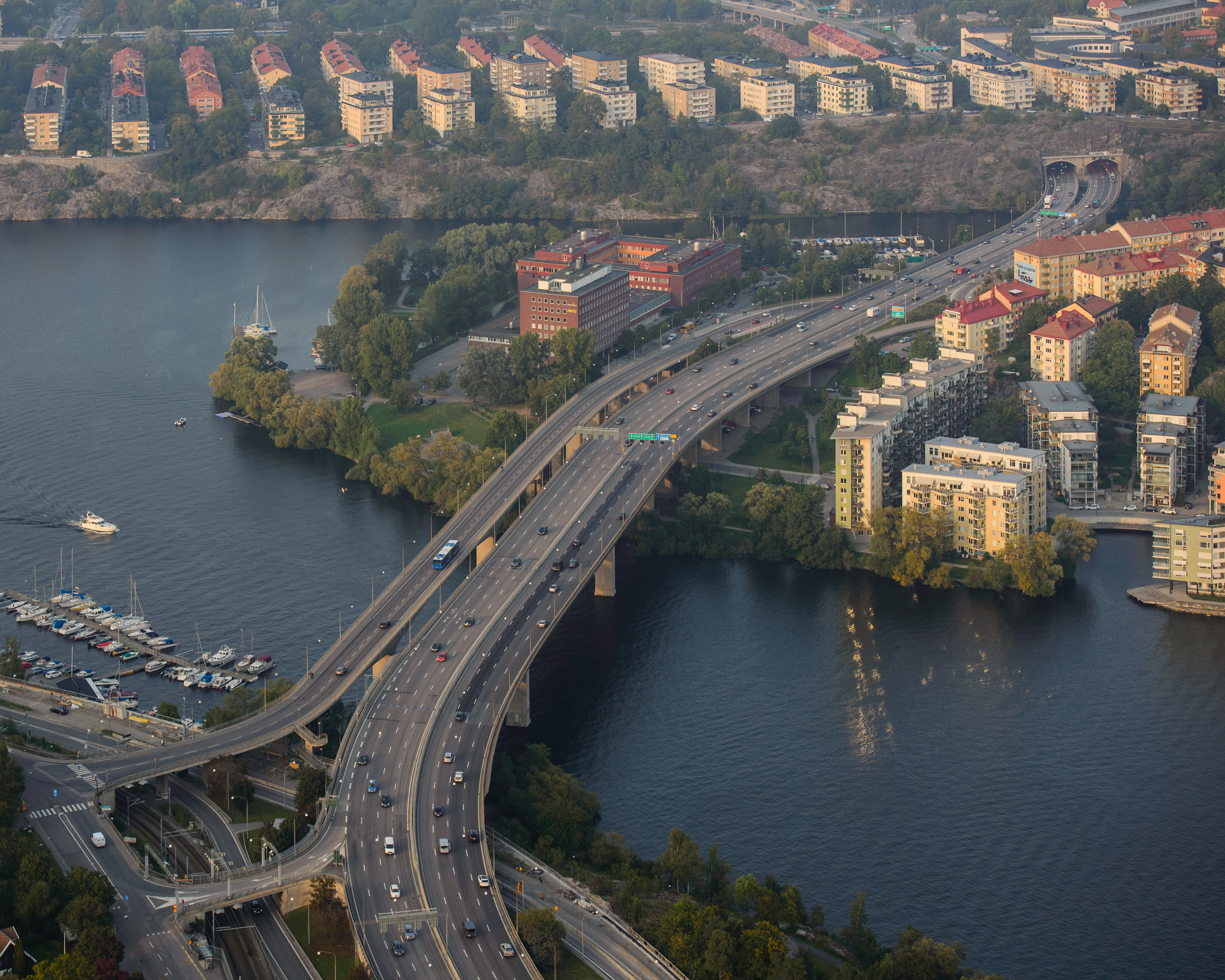 Essingeleden.